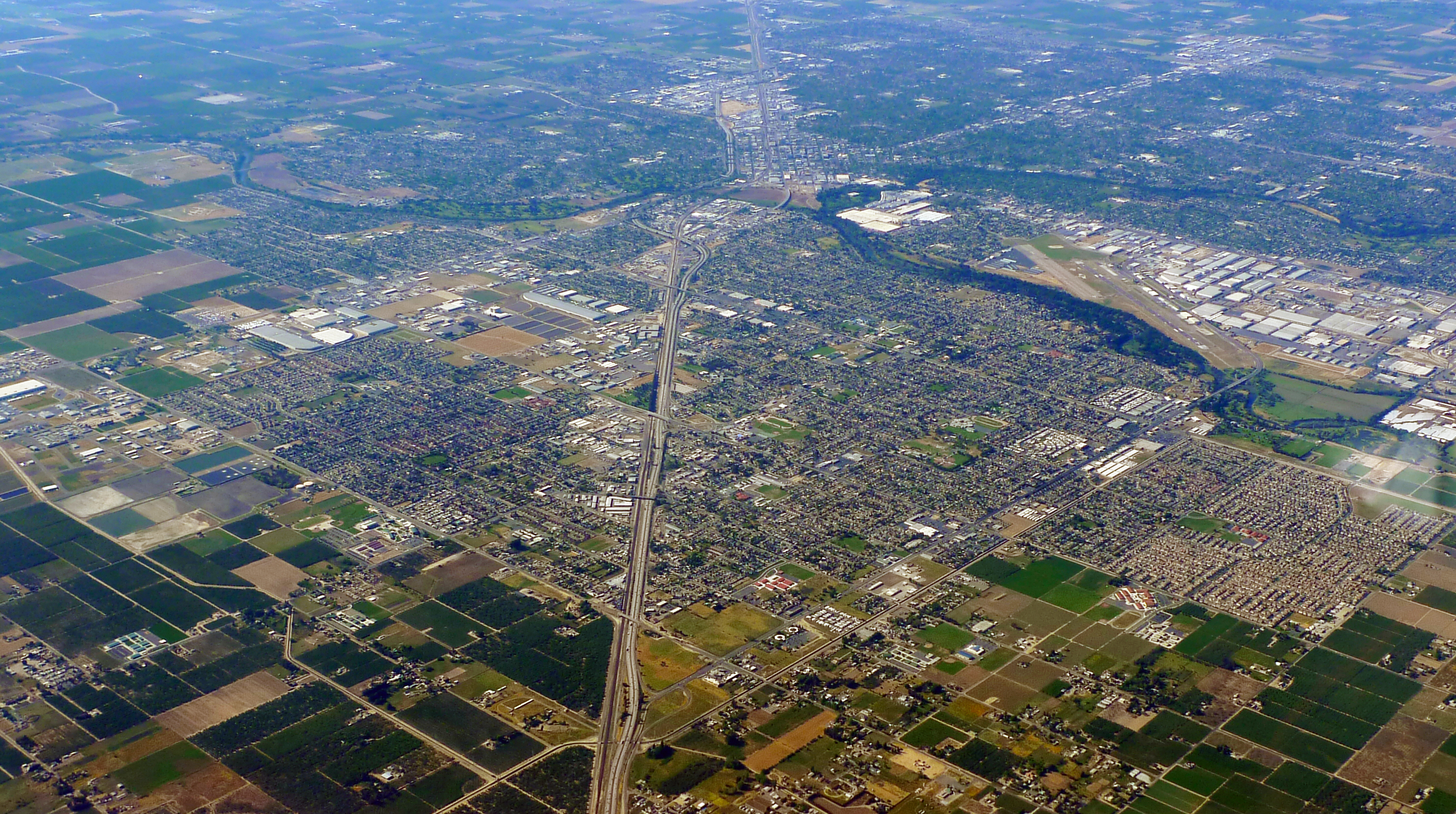 Ceres California photo D Ramey Logan